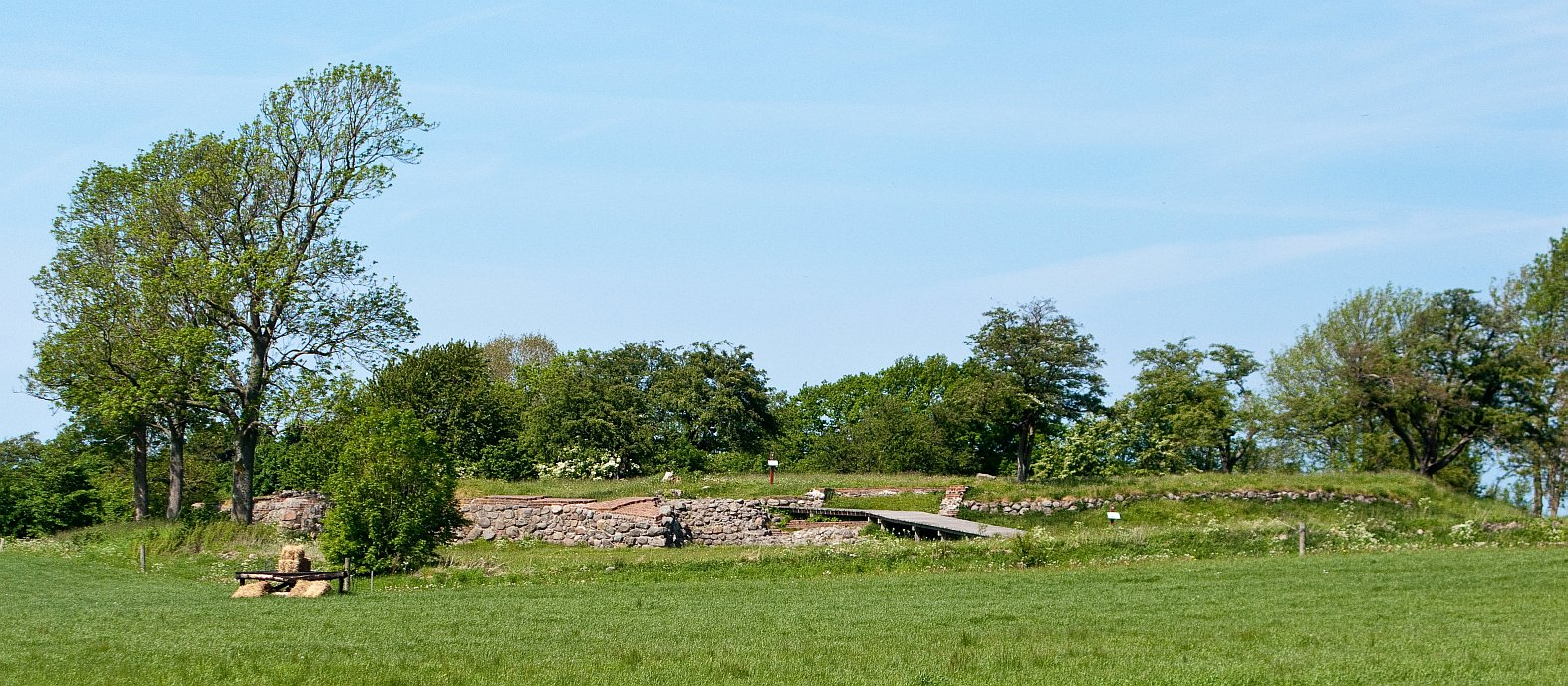 Søborg Castle (Danish: Søborg Slot), in its heyday, was the strongest castle in Denmark ,and was also used as a prison (Jens Grand was imprisoned here in the 13th century). It was inhabited until the Count's Feud in 1535 (Søborg_Castle